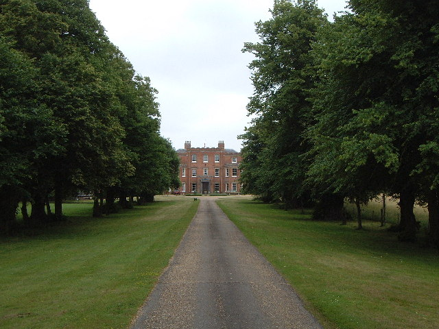 300-year-old lime avenue to Broke Hall. Landscaped by Repton 1794; home of Admiral Sir Philip Broke, captain of "Shannon"